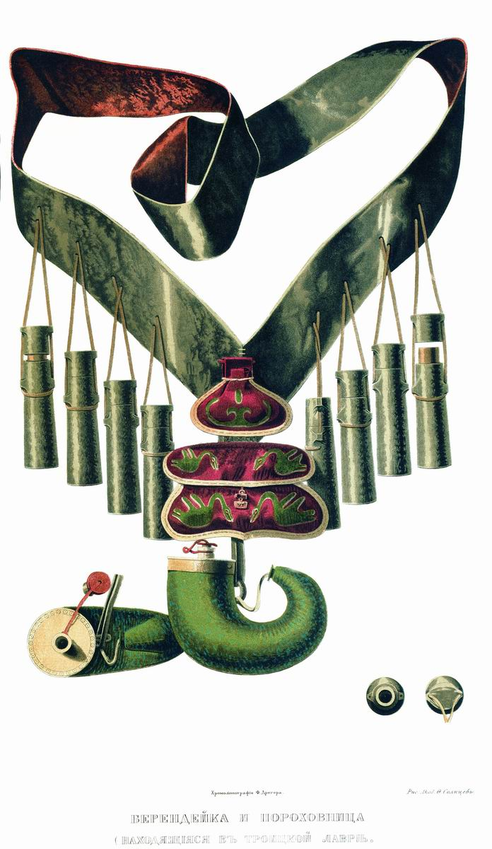 Bandolier and cover from powder.